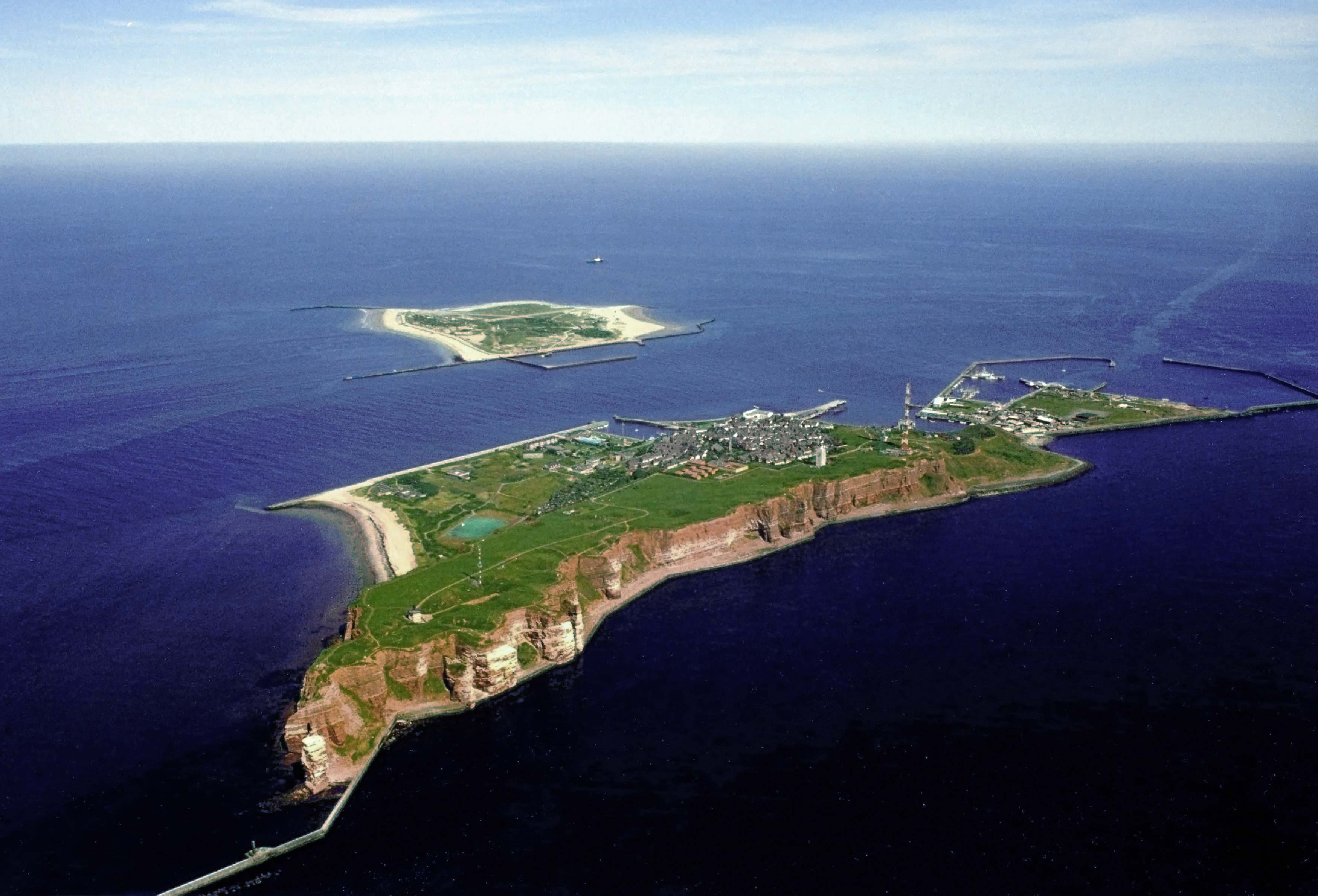 Helgoland in bird's-eye view, with the main island in foreground and the islet of Düne in the background.